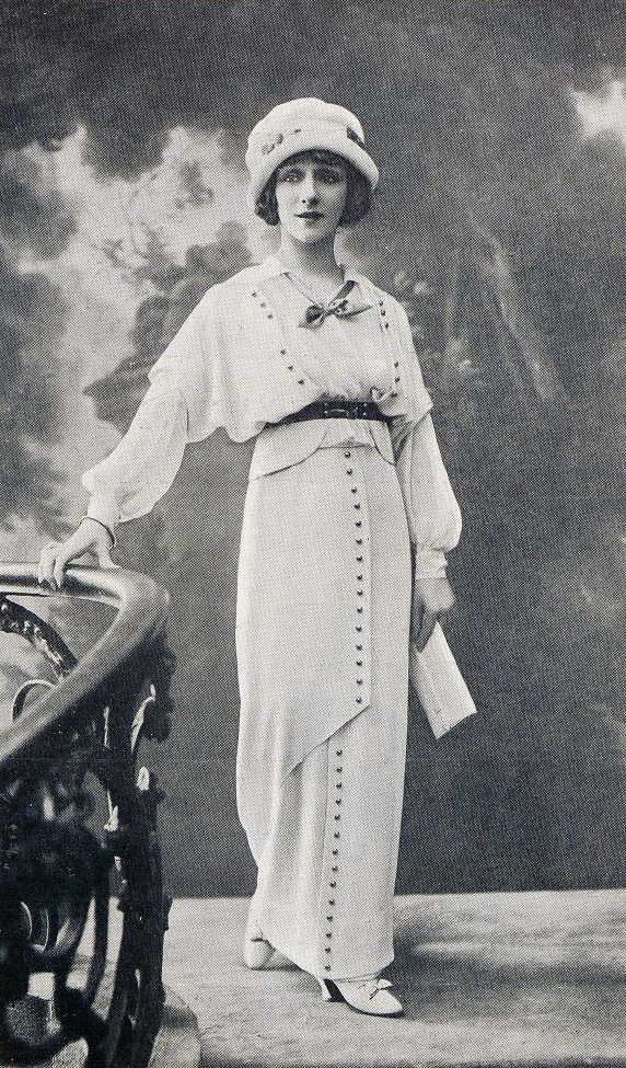 Berthe Bovy in Comedie Francaise', in a dress by Redfern. Cropped and adjusted for color and brightness/contrast. From a playbill, Théâtre des Champs-Elysées. Saison Russe. 23 Mai 1913. Ballets Russes Programs, 1907-1929 (MS Thr 965 [7). Harvard Theatre Collection, Houghton Library, Harvard University